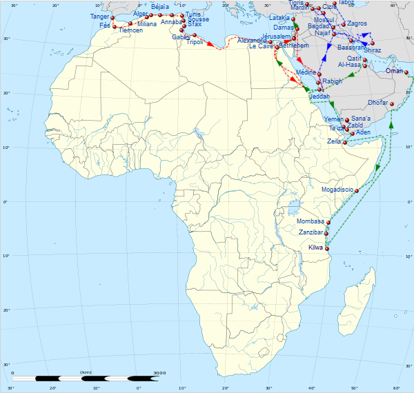 Ibn Battuta itinerary of 1325-1332